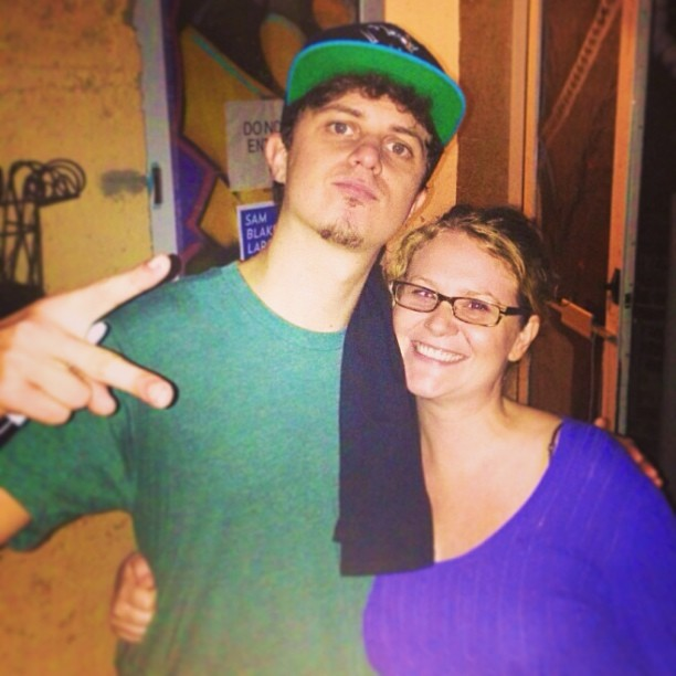 George Watsky (left) in October 2013